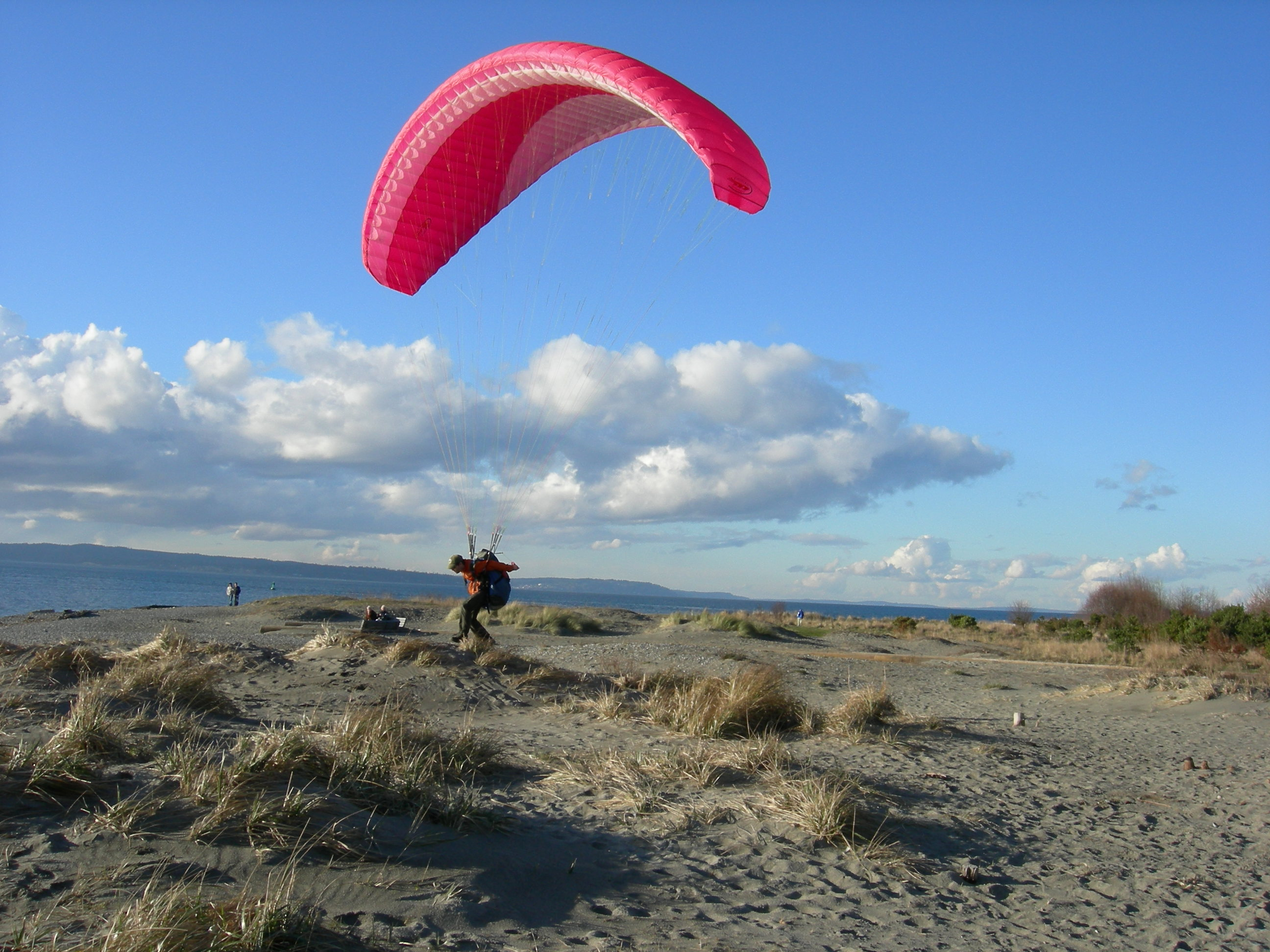 A paraglider practices his technique, utilizing the winter winds in the dunes near the shore of Golden Gardens Park, Ballard, Seattle, Washington.